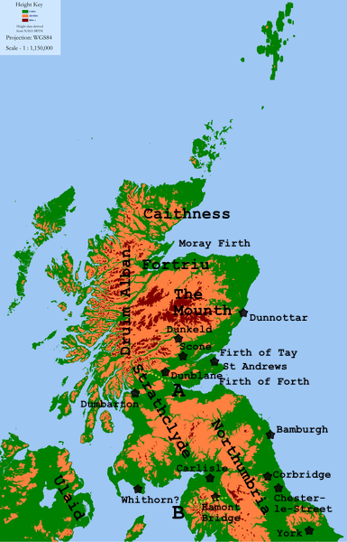 Work derived from Image:Scotland Land Use by height.png. Licensing per that image. Created by user:SFC9394. Licensed CCSA2.5 and GFDL per original work.